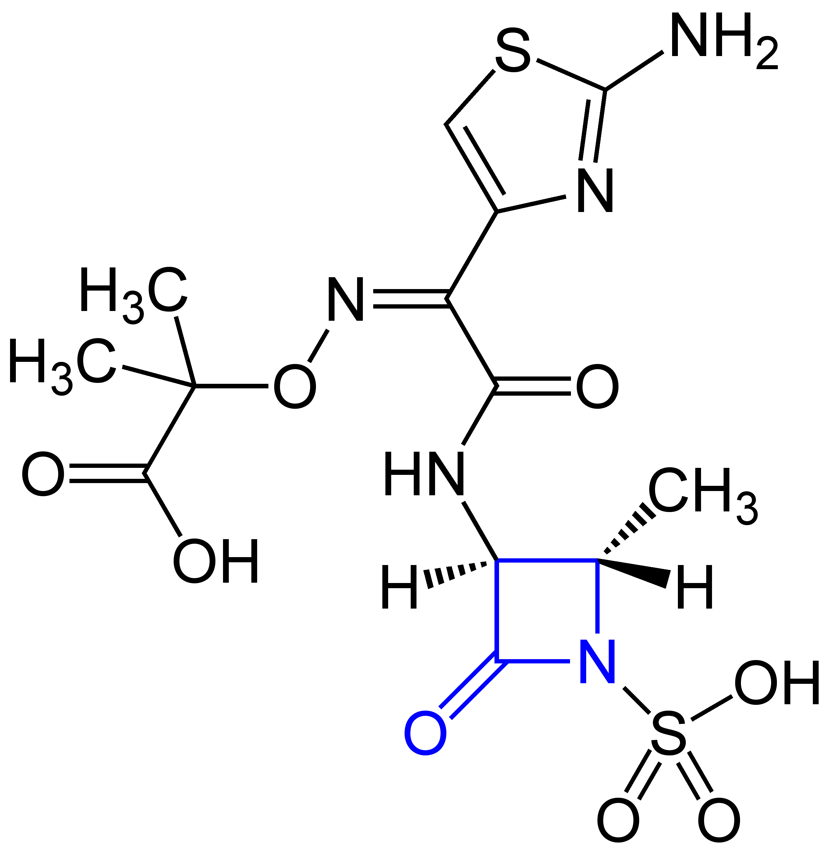 Aztreonam_Structural_Formulae